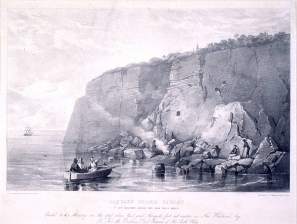 Engraving with the full title "Captain Cook's tablet at Cape Solander, Botany Bay, New South Wales : erected to his memory on the spot where that great navigator first cast anchor in New Holland, by Sir Thos. M. Brisbane, Bart. Governor of New South Wales" measuring 30 x 40 cm